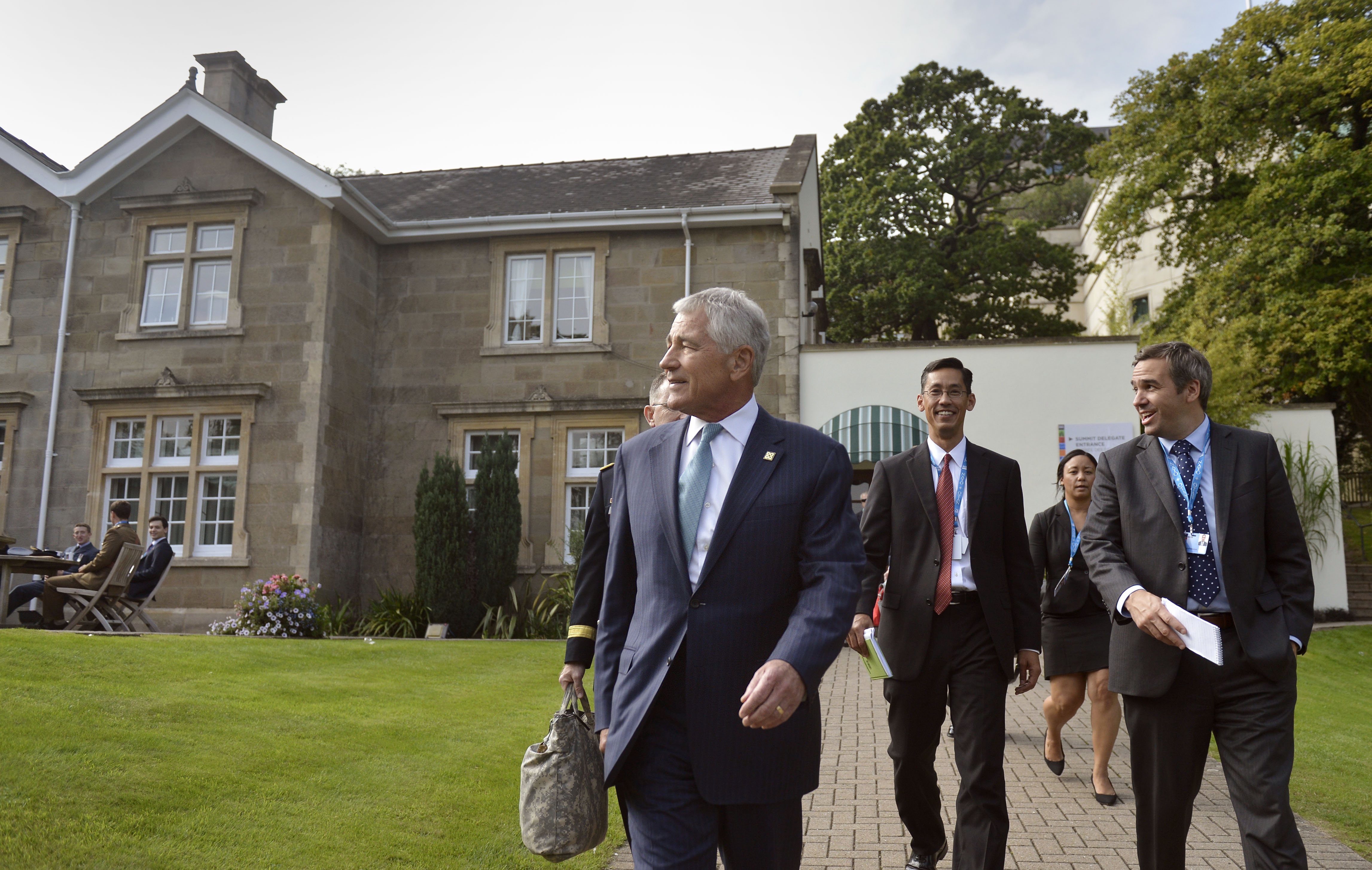 U.S. Secretary of Defense Chuck Hagel, front, walks the grounds of the Celtic Manor Resort in Newport, Wales, with members of his staff as they head to a meeting during the 26th NATO summit Sept. 4, 2014.